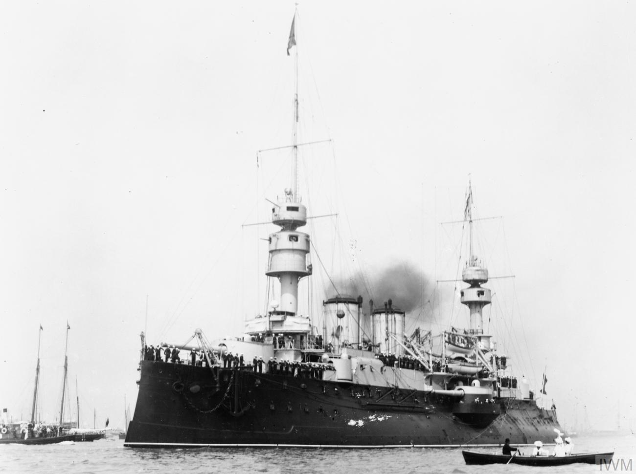 Symonds and Co Collection JAUREGUIBERRY (1893) at Spithead, 1905.